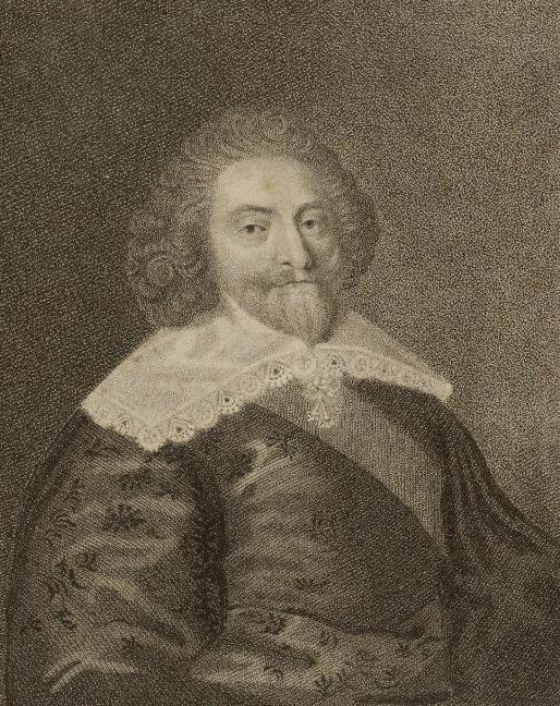 A portrait from the Welsh Portrait Collection at the National Library of Wales. Depicted person: Thomas Somerset, 1st Viscount Somerset – English politician